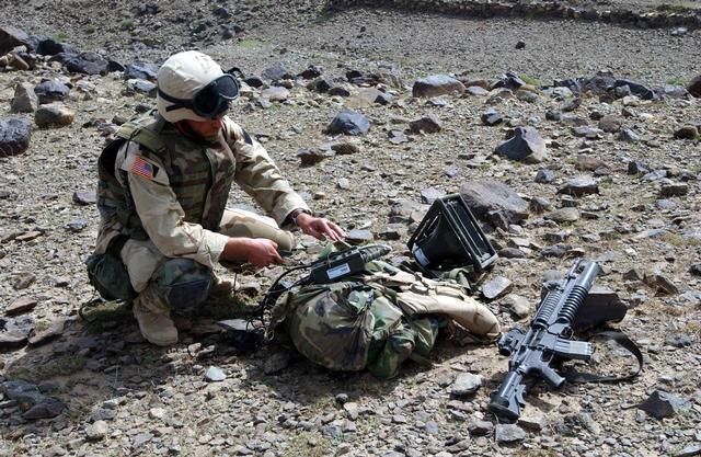 US Army Specialists (SPC) Adam McDaniel, Alpha/Company, 9th Psychological Operations (PSYOP) Battalion, sets up a loudspeaker system in order to broadcast non-civilian interference messages to the local people in the town of Narizah, Afghanistan, during Operation Mountain Sweep, part of ongoing operations in Afghanistan conducted in support of Operation Enduring Freedom. SPC McDaniels weapon is a 5.56mm M4 carbine with a 40mm M203 grenade launcher attached.